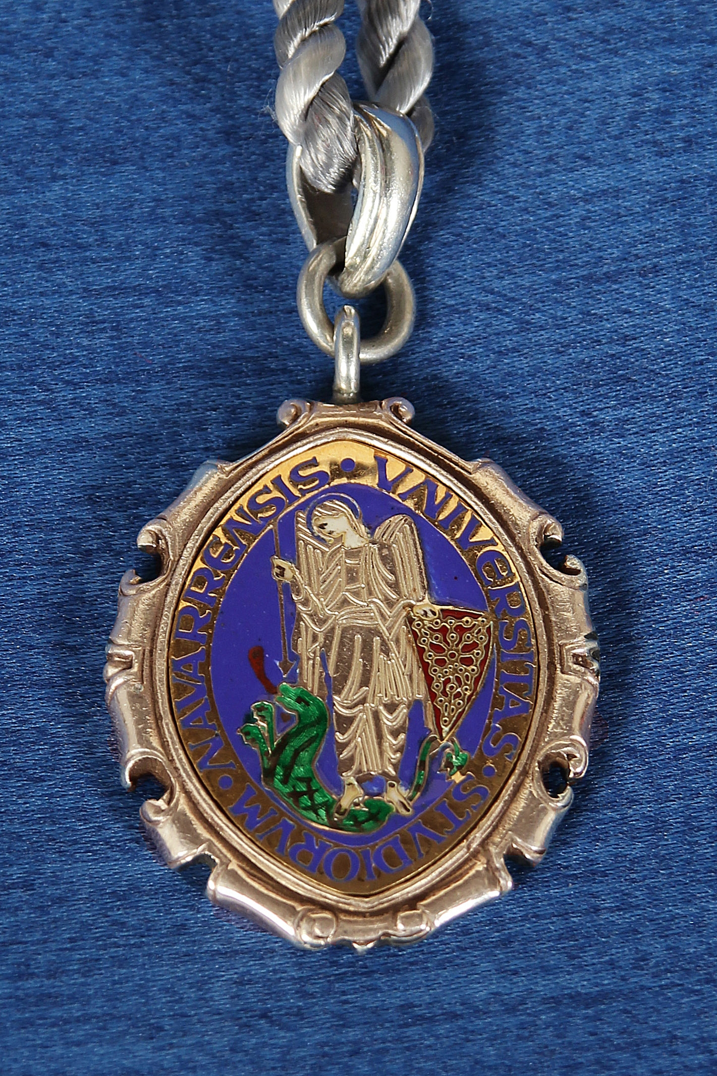 Medal of the University of Navarra